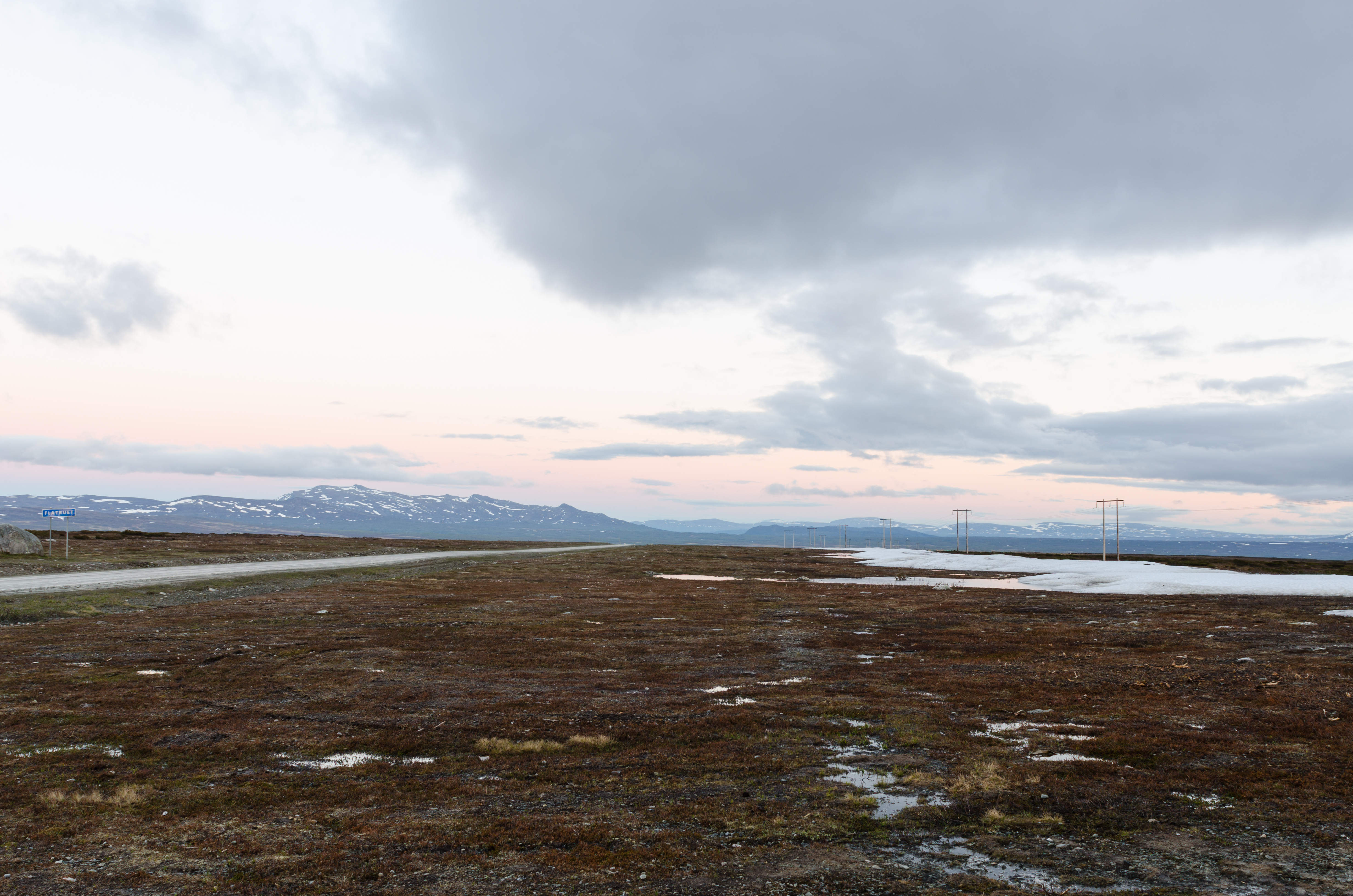 Flatruetvägen.